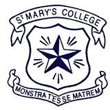 The St Mary's college logo